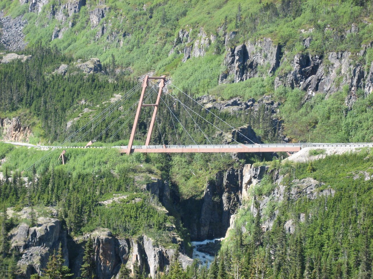 Moore Bridge near Skagway, Alaska; this single-end support bridge spans Moore Creek, 180 ft below.